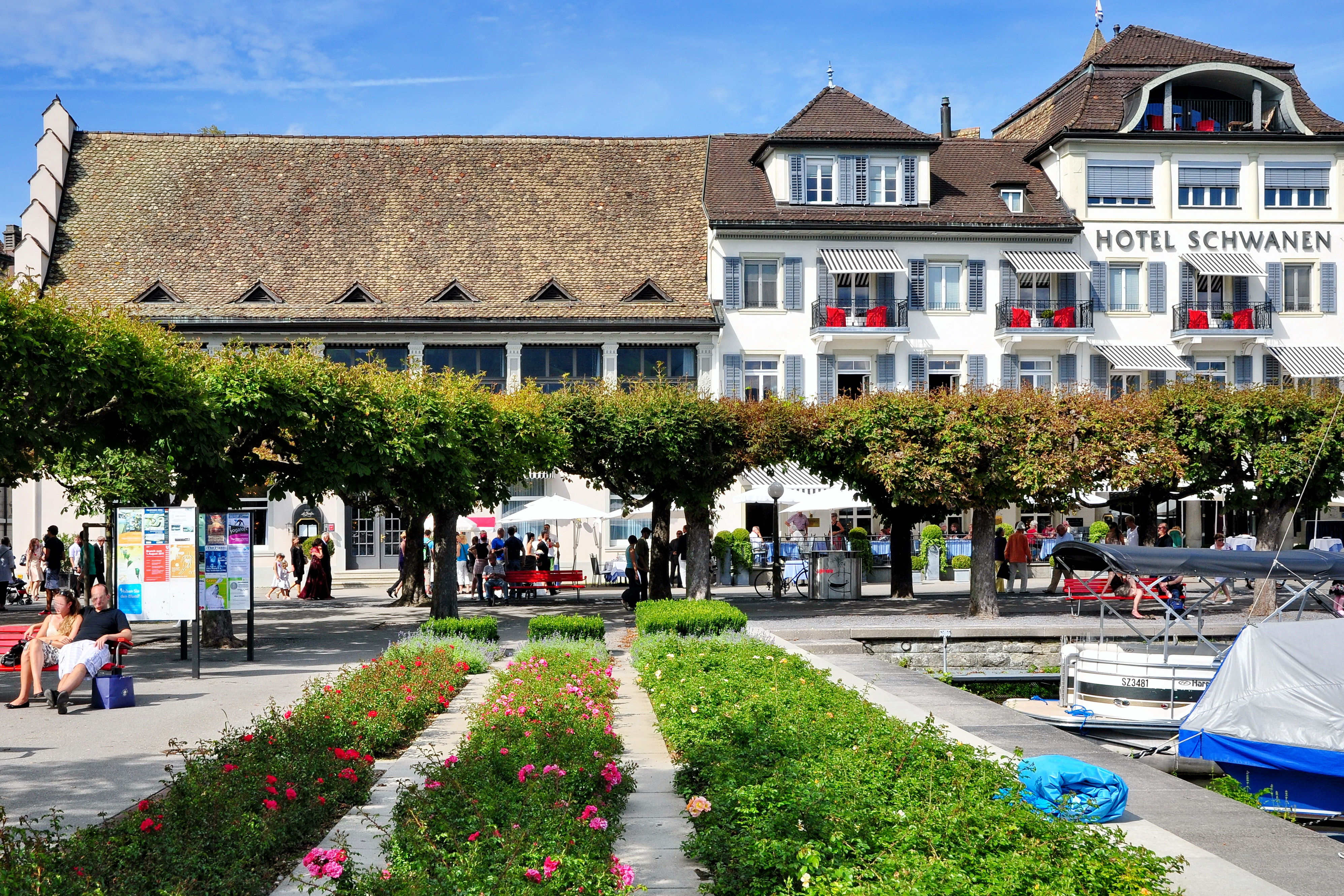 Harbour area respectively See-Quai in Rapperswil (Switzerland), Hotel Schwanen in the background.